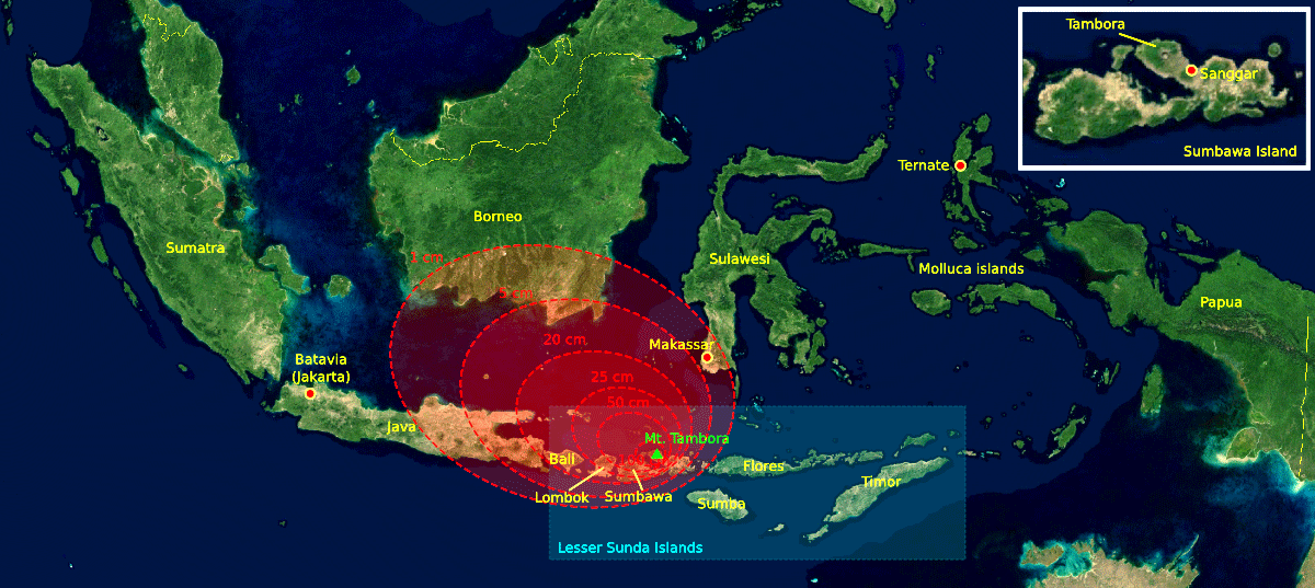 The 1815 Mount Tambora eruption. The red areas are maps of the thickness of volcanic ashfall.